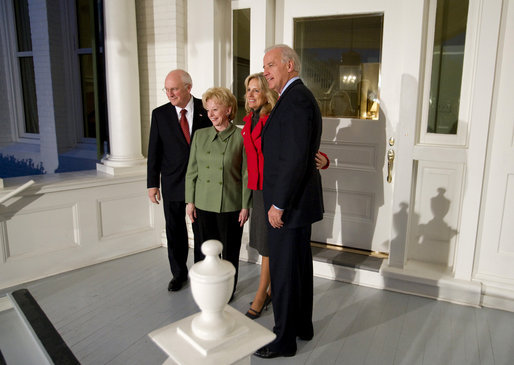 Vice President Dick Cheney and Mrs. Lynne Cheney welcome Vice President-elect Joe Biden and Mrs. Jill Biden at the Number One Observatory Circle, Vice President’s Residence in the U.S. Naval Observatory in Washington, D.C